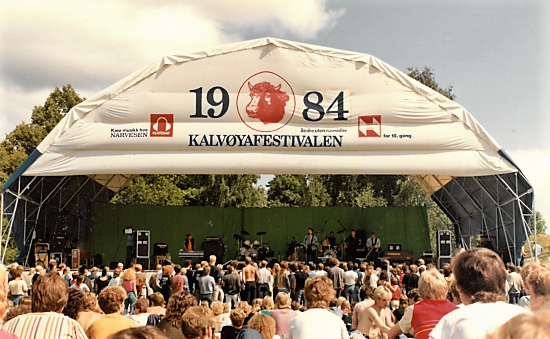 Kalvøyafestivalen 1984. Espen Beranek Holm on the stage.